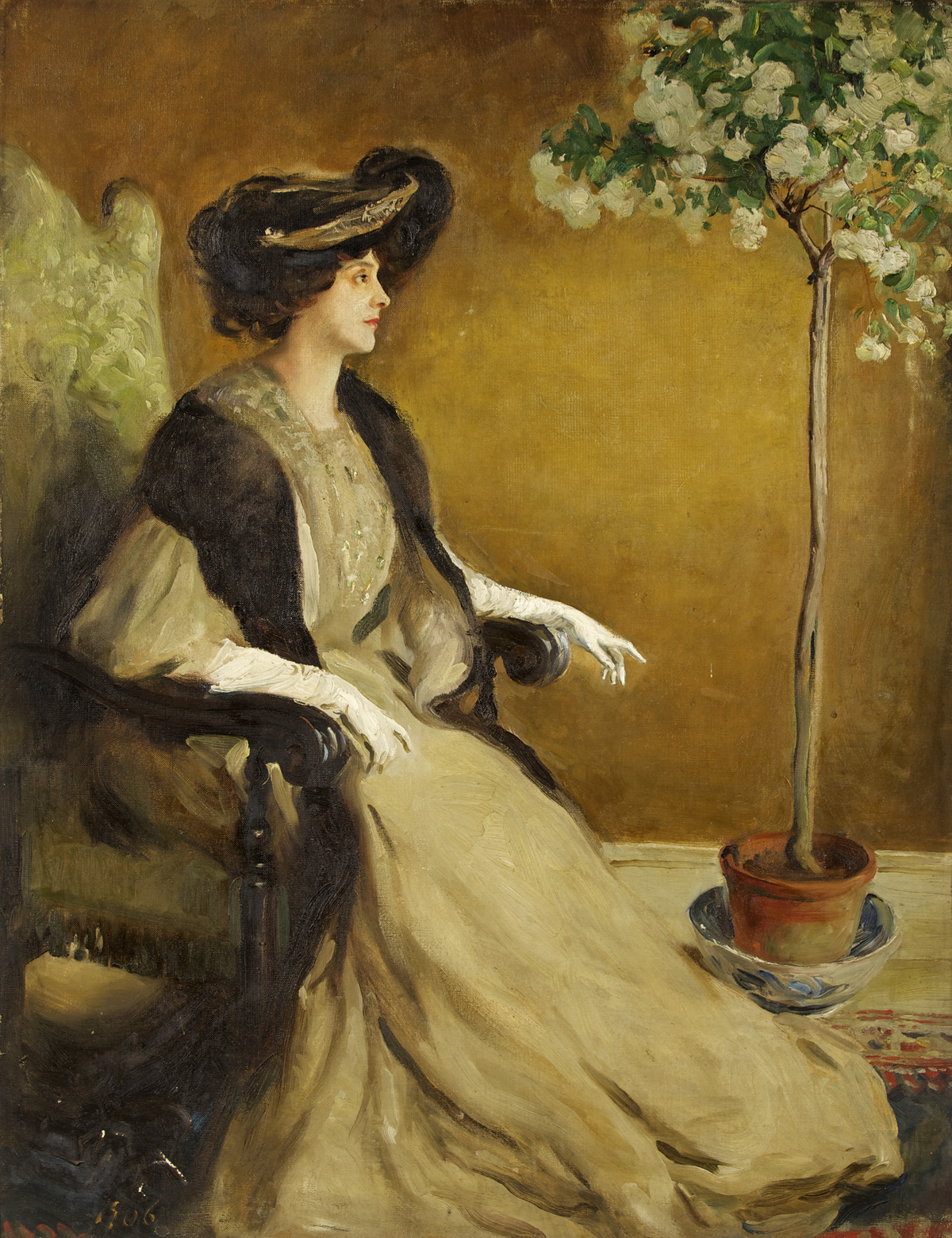 Ranken, William Bruce Ellis; Mrs Patrick Campbell; Bristol Museums, Galleries & Archives